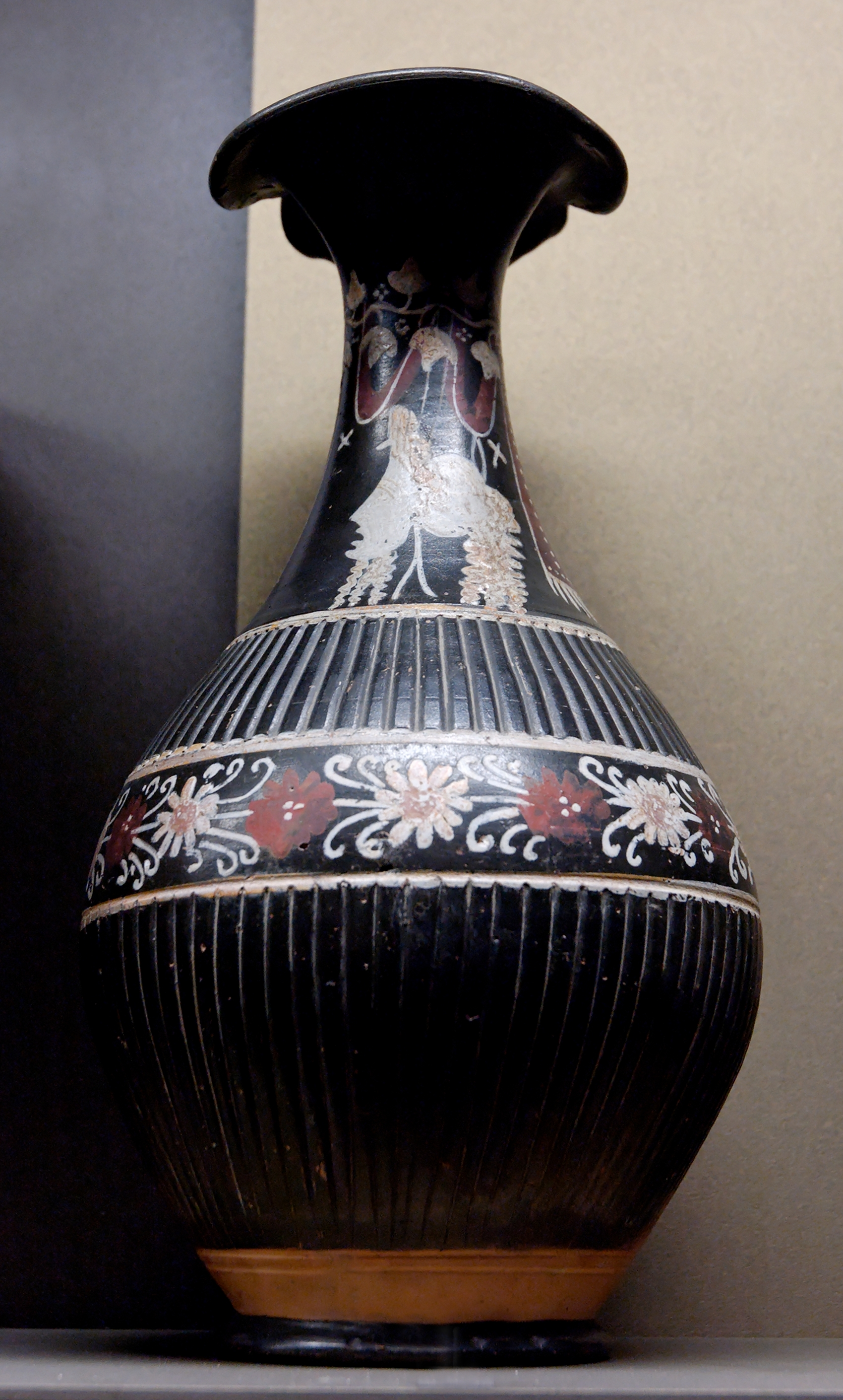 Female theater mask. Apulian oinochoe with decoration in superposed colour of the Gnathia style, ca. 300–290 BC. From Nola.